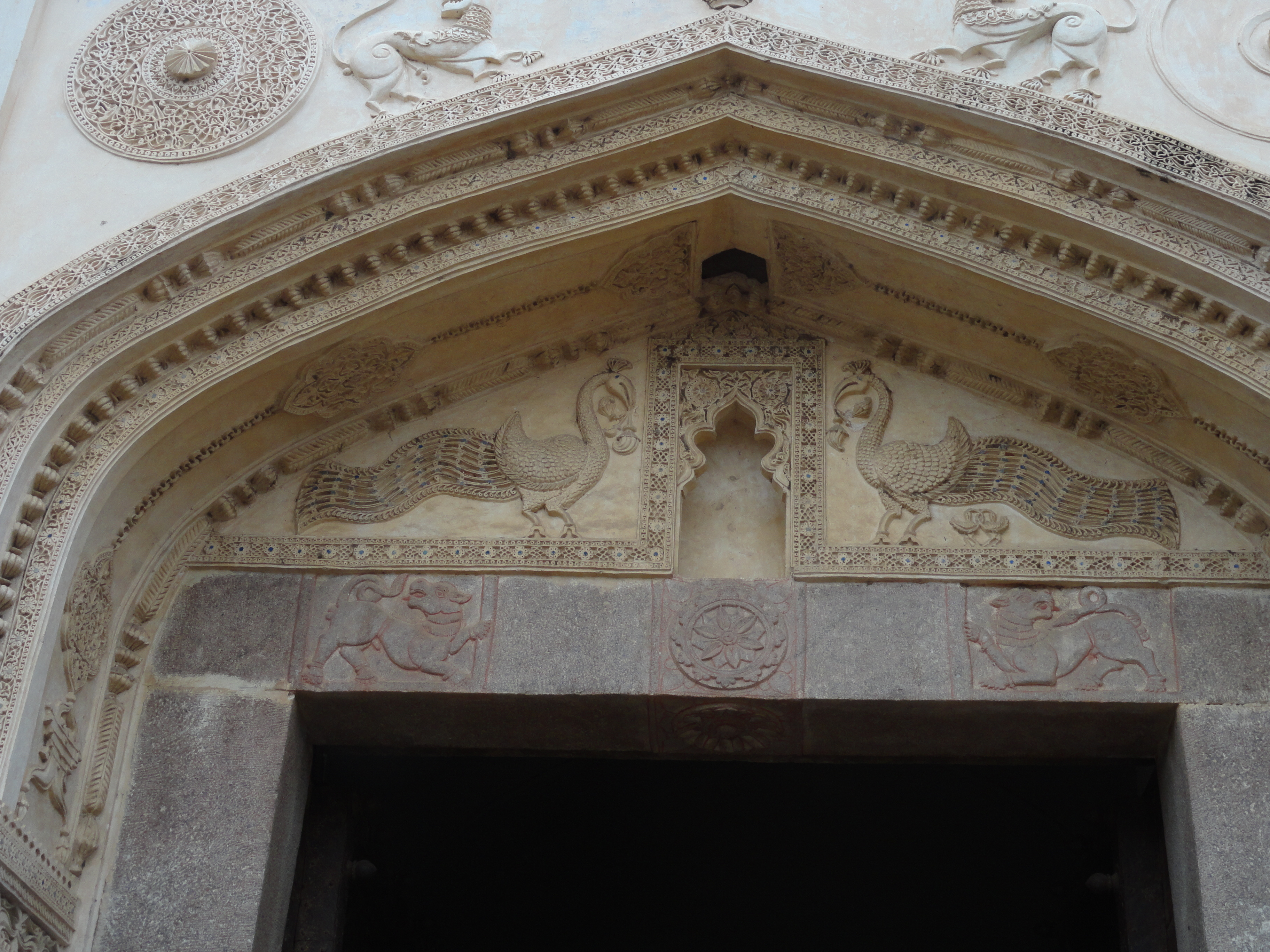 this is picture of balahissar gate of golkonda on the top of the door way